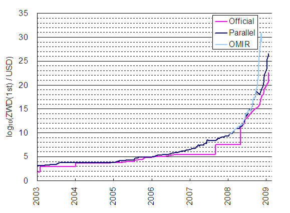 Graph showing U.S. dollar and Zimbabwean dollar(1st) rate from January, 2003. Logarithmic scale.